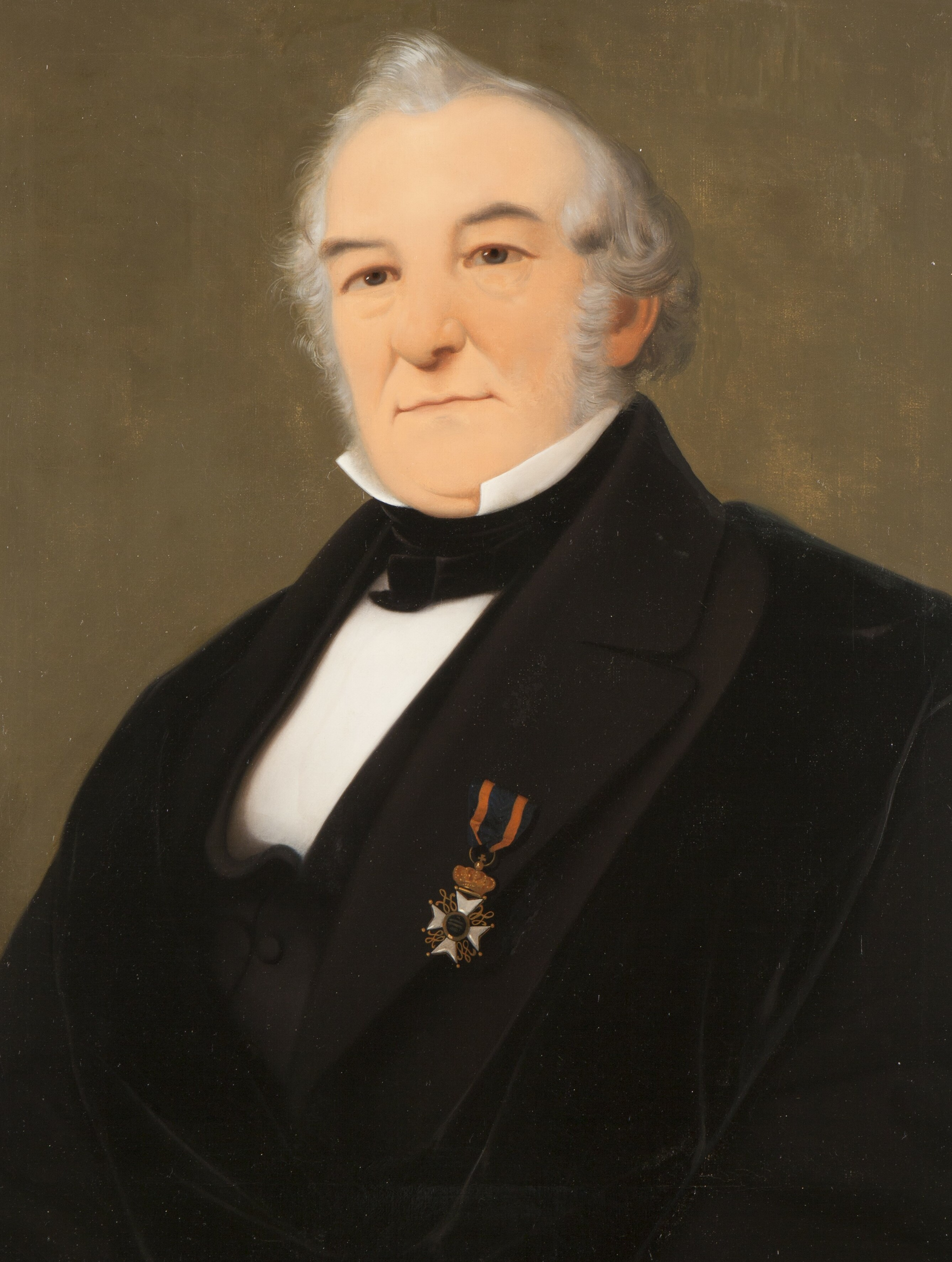 Nicolaas Christiaan Kist (1793-1859), professor theology Leiden University